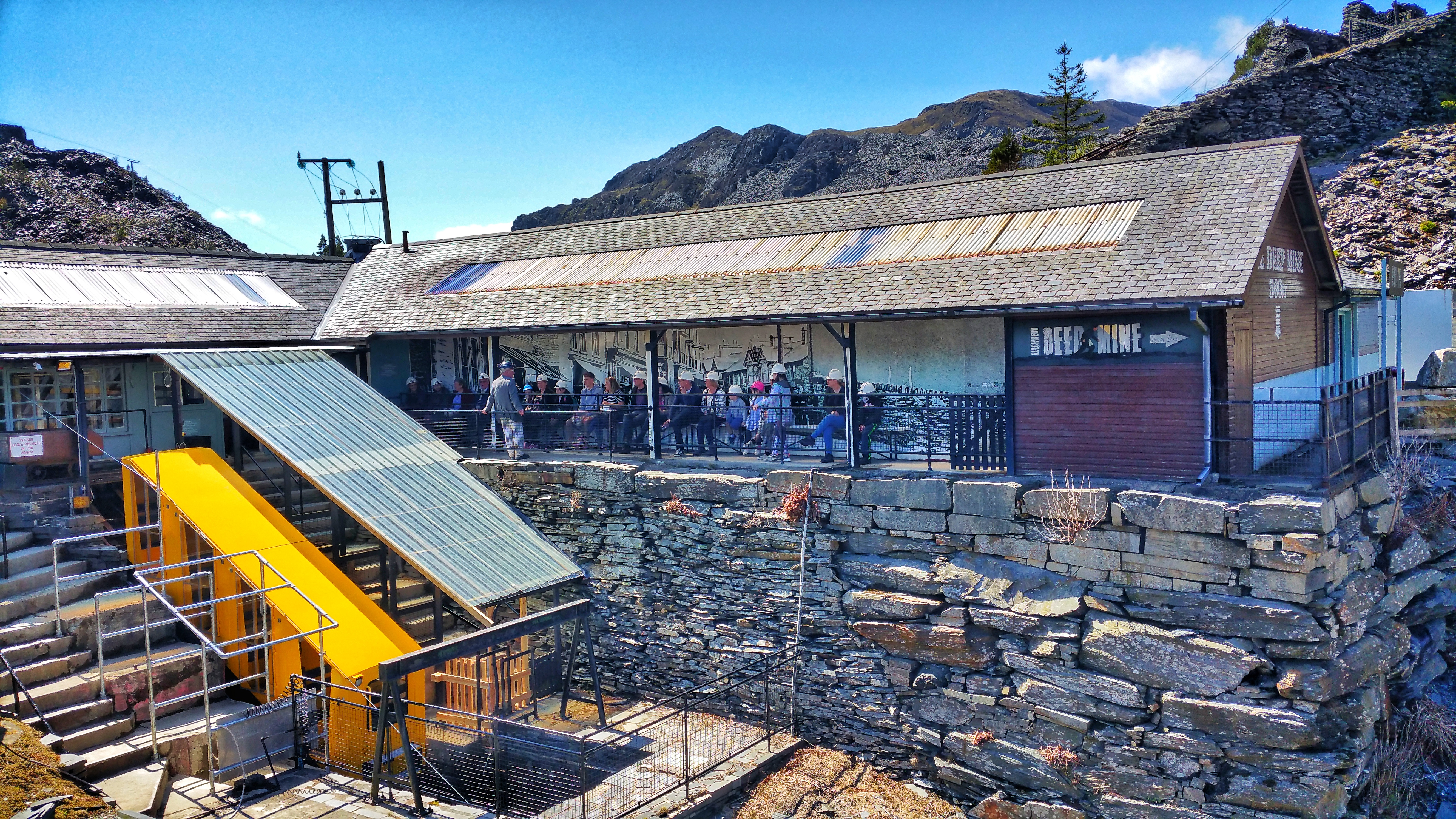 The entrance to the Deep Mine including the narrow gauge railway system.